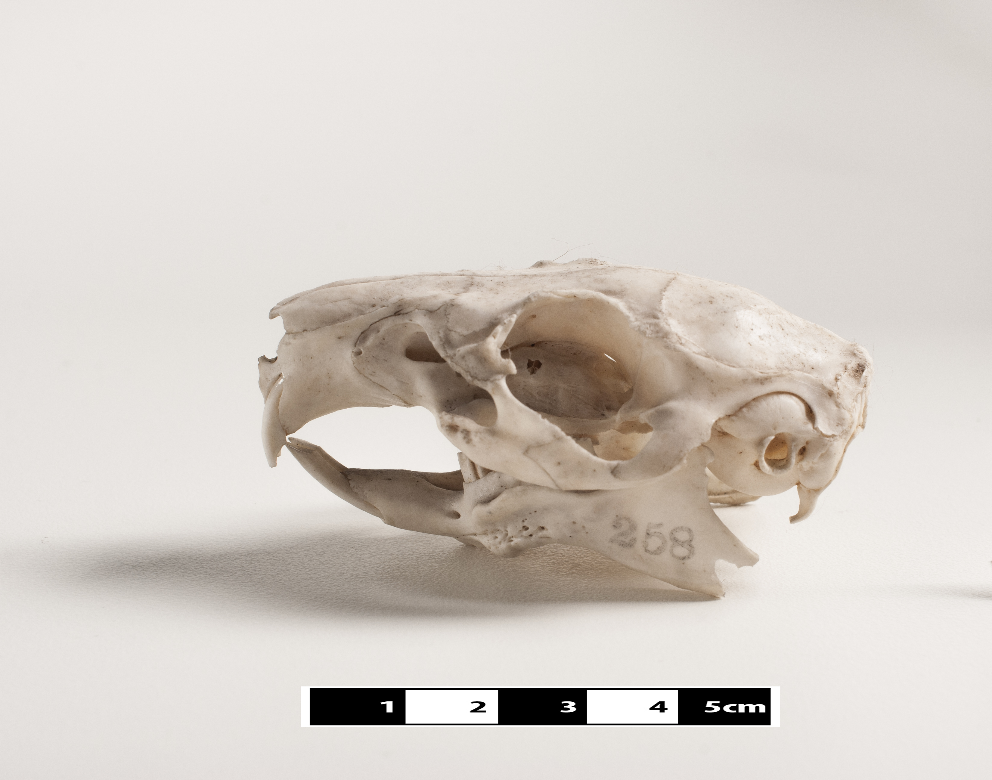 Specimen of guinea pig skull prepared by the bone maceration technique and on display at the Museum of Veterinary Anatomy, FMVZ USP.This file was published as the result of a partnership between the Museum of Veterinary Anatomy FMVZ USP, the RIDC NeuroMat and the Wikimedia Community User Group Brasil. This GLAM project is reported.Photography: Museum of Veterinary Anatomy FMVZ USPAuthor: Wagner Souza e Silva